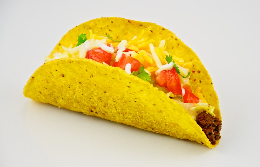 Traditional American taco, served with ground beef, sour cream, iceburg lettuce, tomato and jack and cheddar cheese.